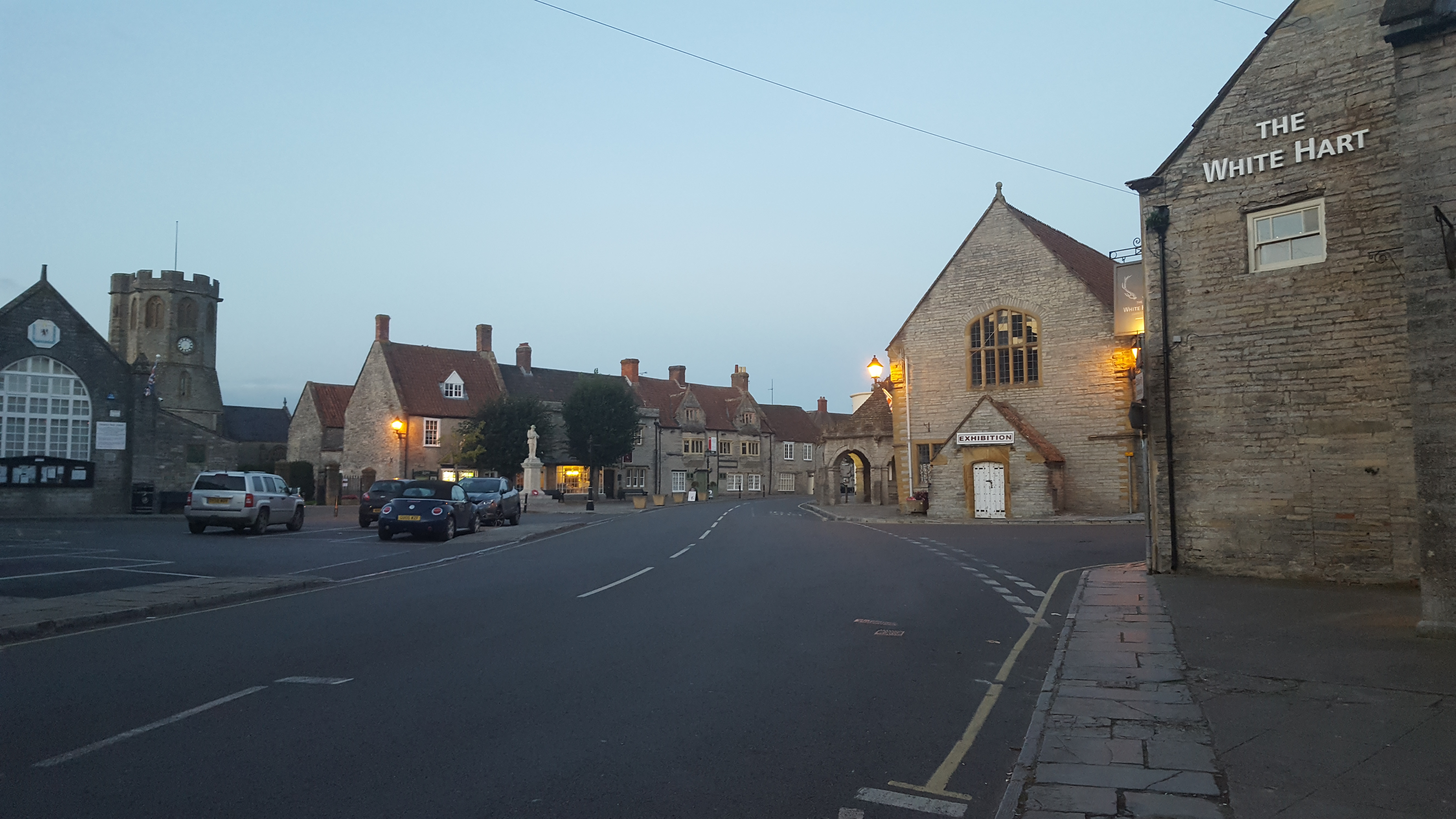 Somerton's Market Square